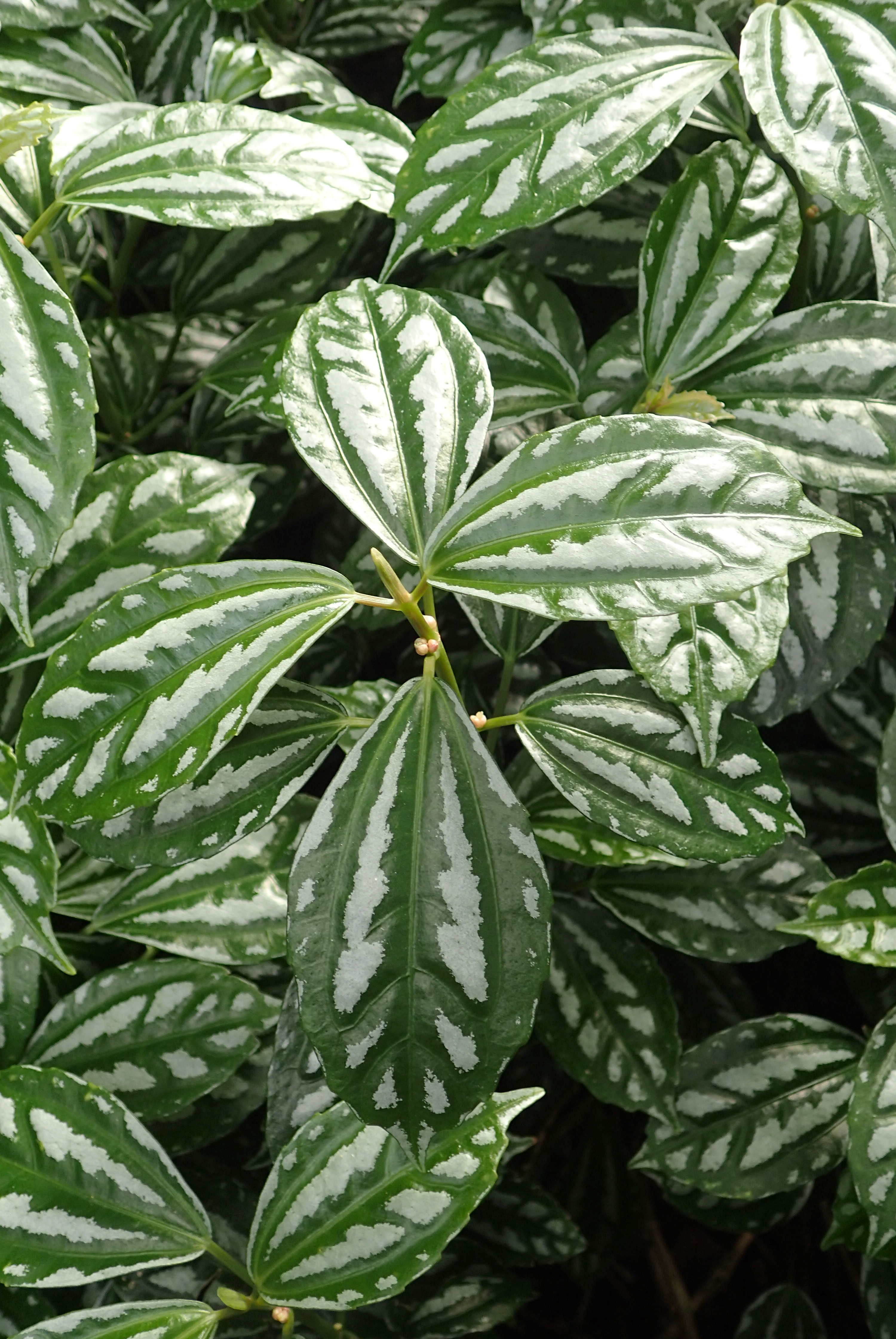 Pilea cadierei in Lincoln Park Conservatory, Chicago